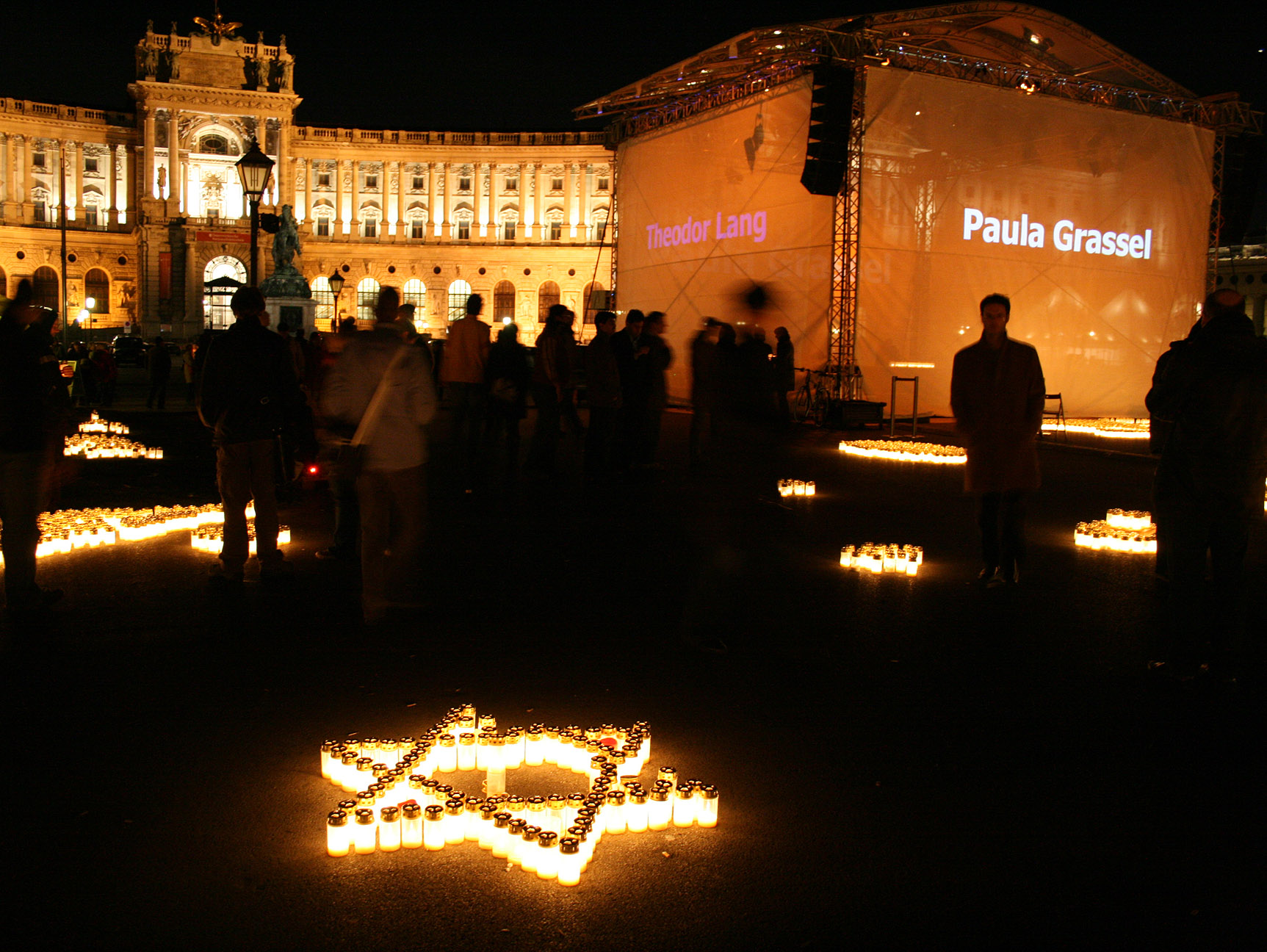 Austria, Vienna, Heldenplatz